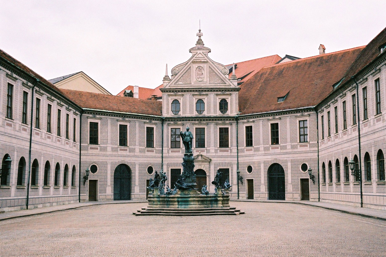 Residenz, MunichBrunnenhof